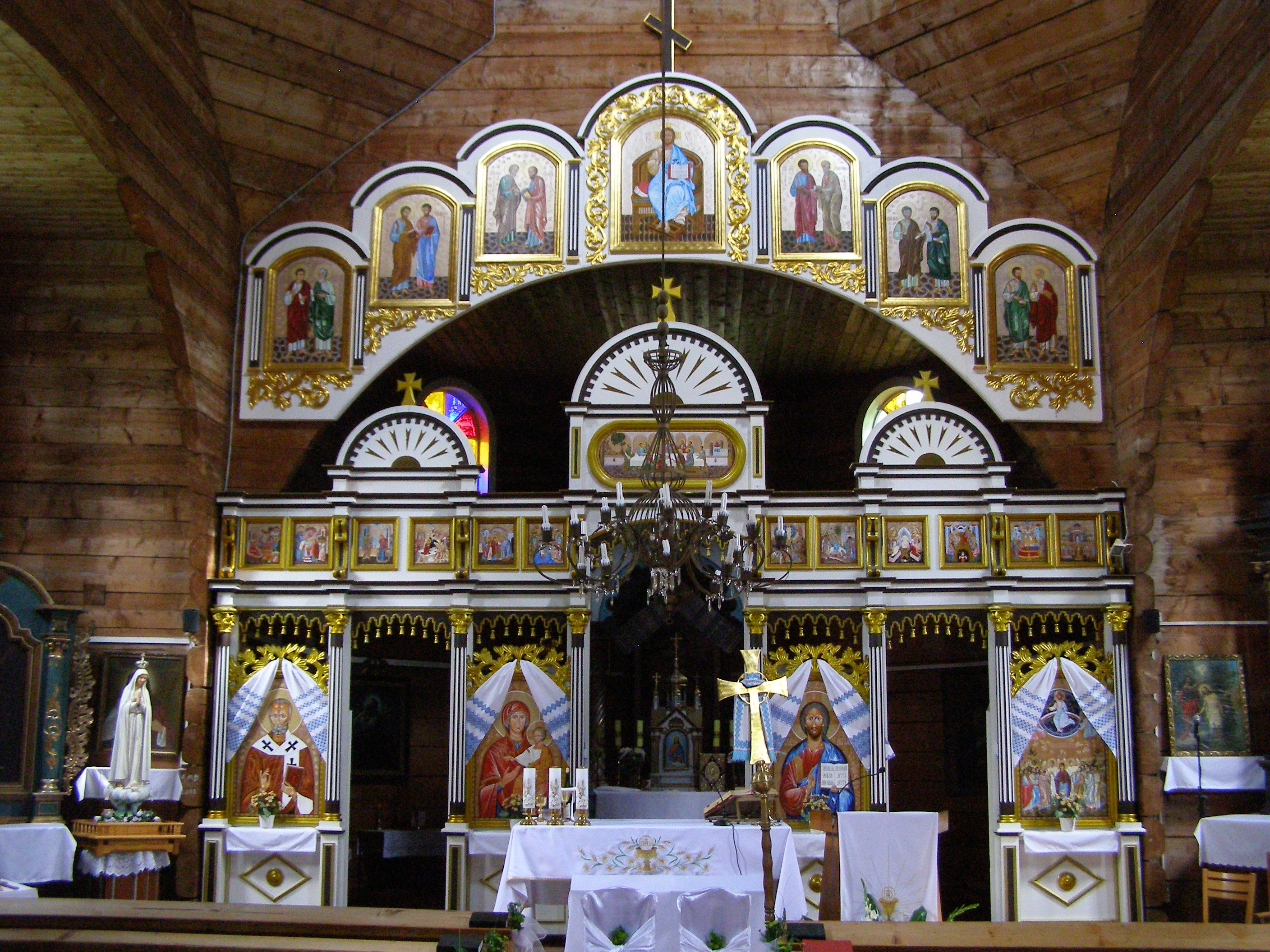 Gładyszów - iconostasis in the church of St. John the Baptist